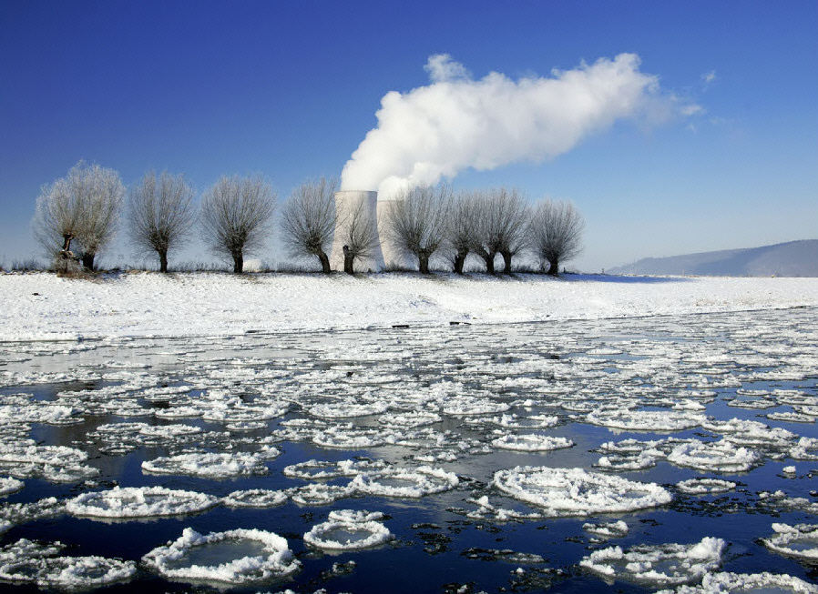 Eisgang auf der Weser zwischen Latferde und Grohnde , oberhalb des Kraftwerks.